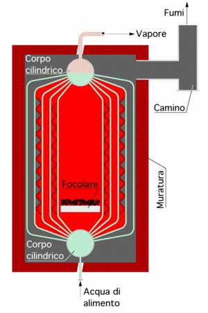 Water Tube Steam Boiler (Italian)